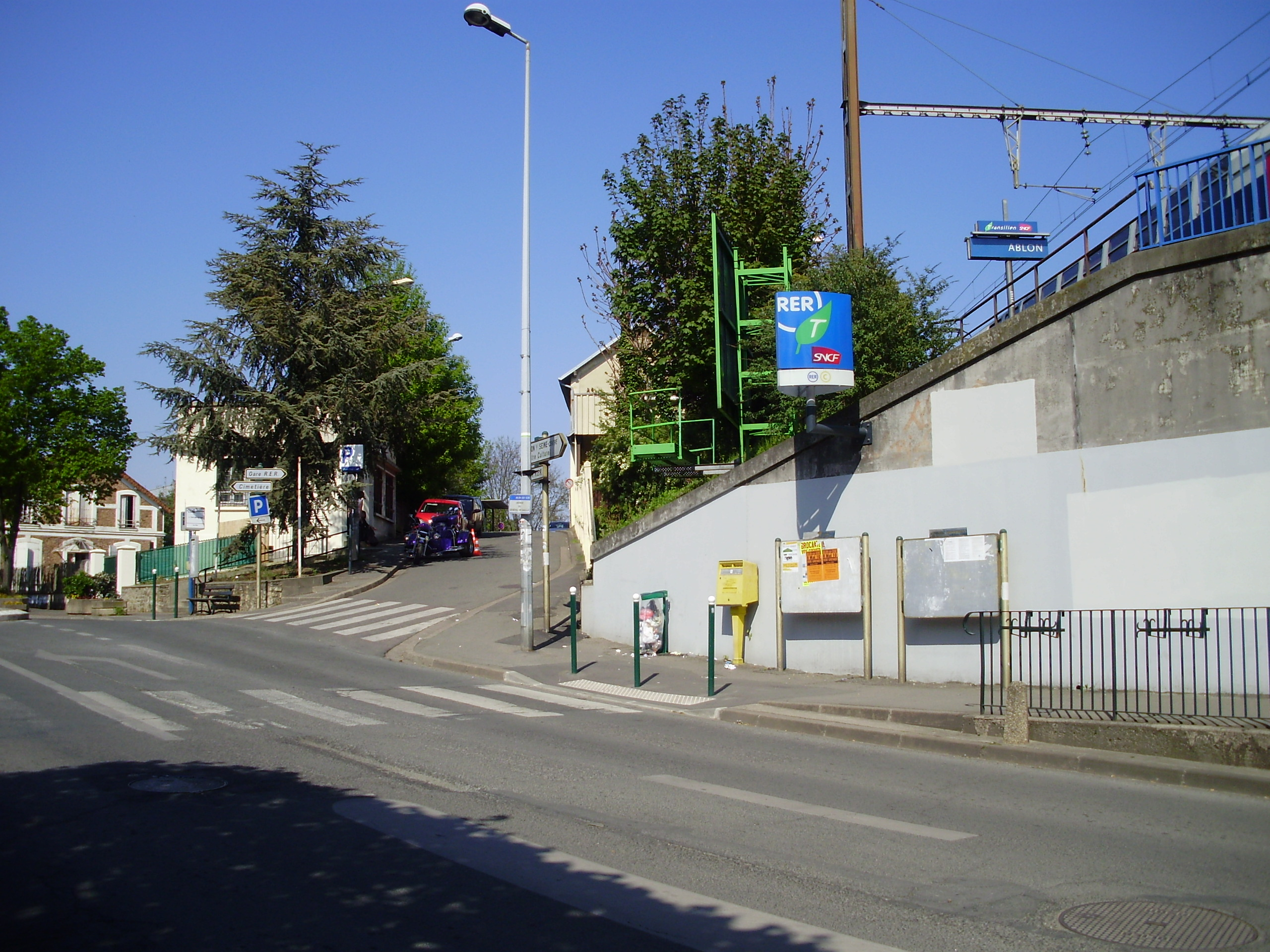 Lane access to the Ablon station, in Ablon-sur-Seine, Val-de-Marne, France